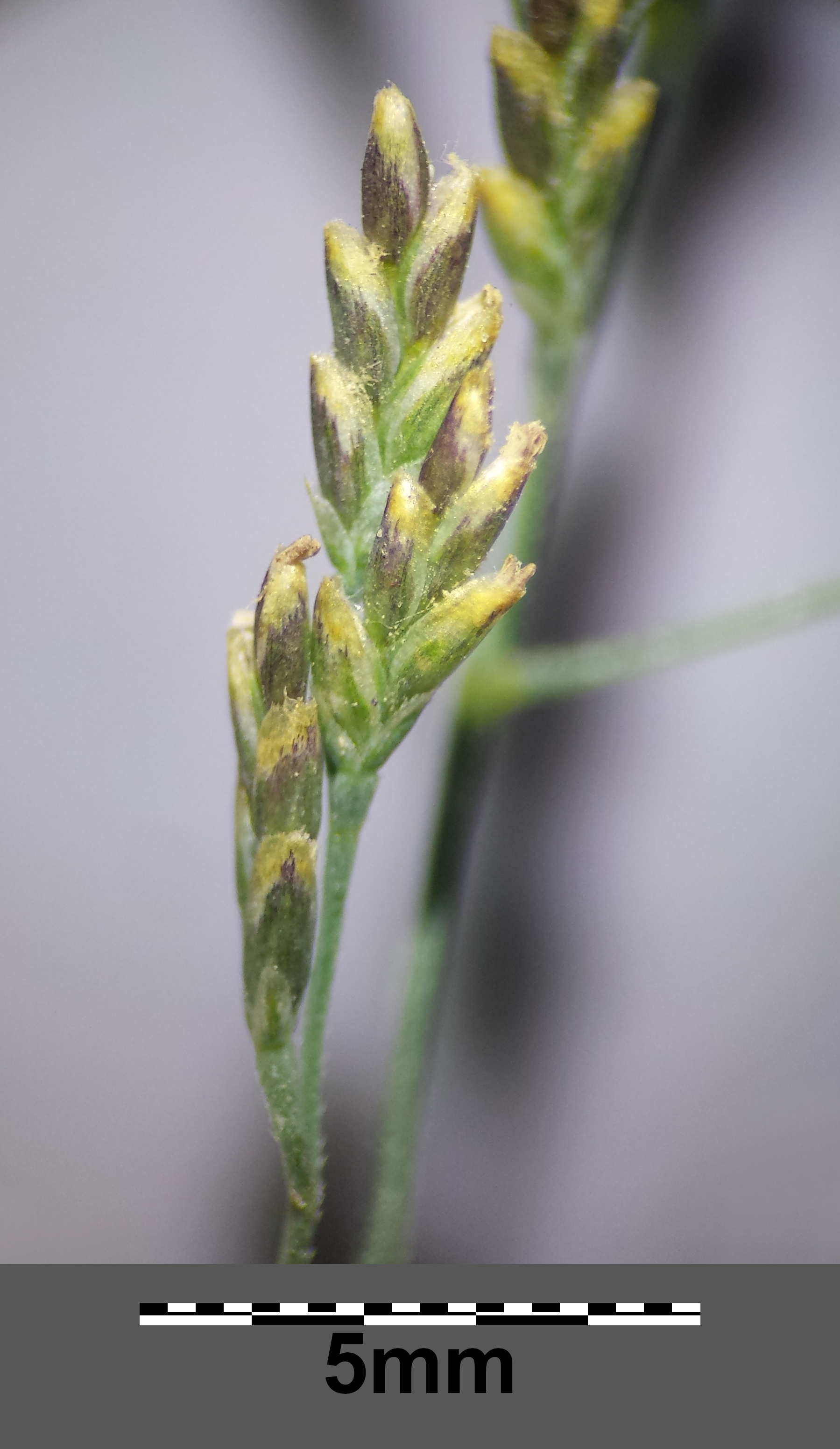 Spikelets Taxonym: Puccinellia distans ss Fischer et al. EfÖLS 2008 ISBN 978-3-85474-187-9 Location: quarry and earth dump 2,2 km ESE Laa an der Thaya, district Mistelbach, Lower Austria - ca. 180 m a.s.l. Habitat: earth area